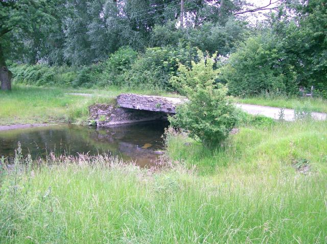 Bridge Over Afon Dulas The river Dulas flows down through Lampeter where it then joins the river Teifi. The bridge lies on an unclassified road North East of Lampeter.